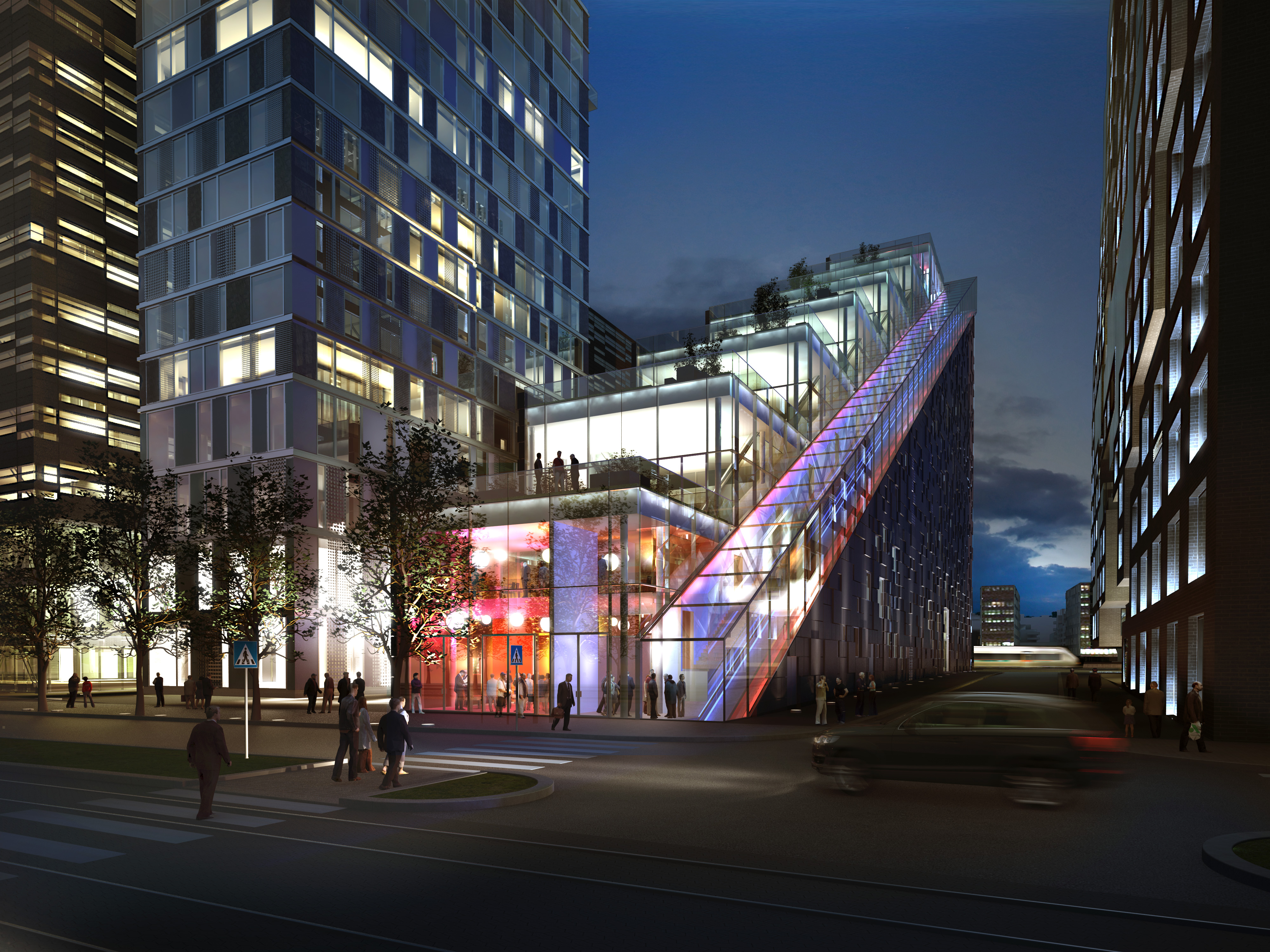 The C-building is one of three buildings in the DnB NOR complex situated in Bjørvika at the waterfront of Oslo. The C-building by Dark Arkitekter has within a surface of 12.000 m2 fifteen floors containing both offices and public services. The project will be completed in 2012. Thirteen generic office floors give the bank 500 workplaces. The two top floors contain a public restaurant and a bar with a 360 degree viewpoint area on the roof terrace. An inclined panorama elevator connects the viewpoint and the restaurant/bar on the top to the ground level restaurant at Dronning Eufemias gate, the new main boulevard of Oslo.